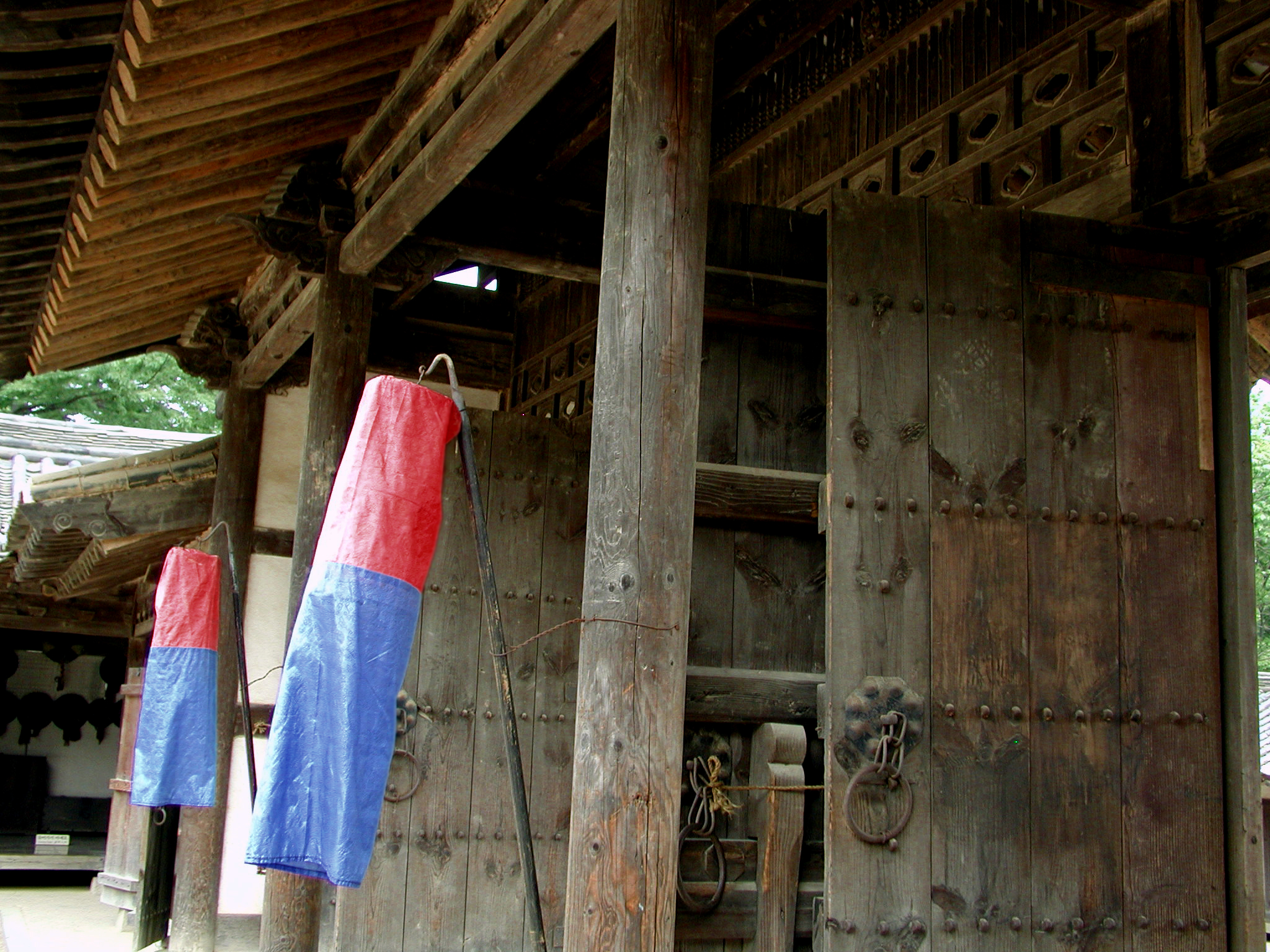 The lanterns indicate that the house is where the bride's house is and wedding ceremony would be held. Hanok, Korean traditional house at Korean Folk Village (Minsokchon) in Yongin, Gyeonggi-do, Korea